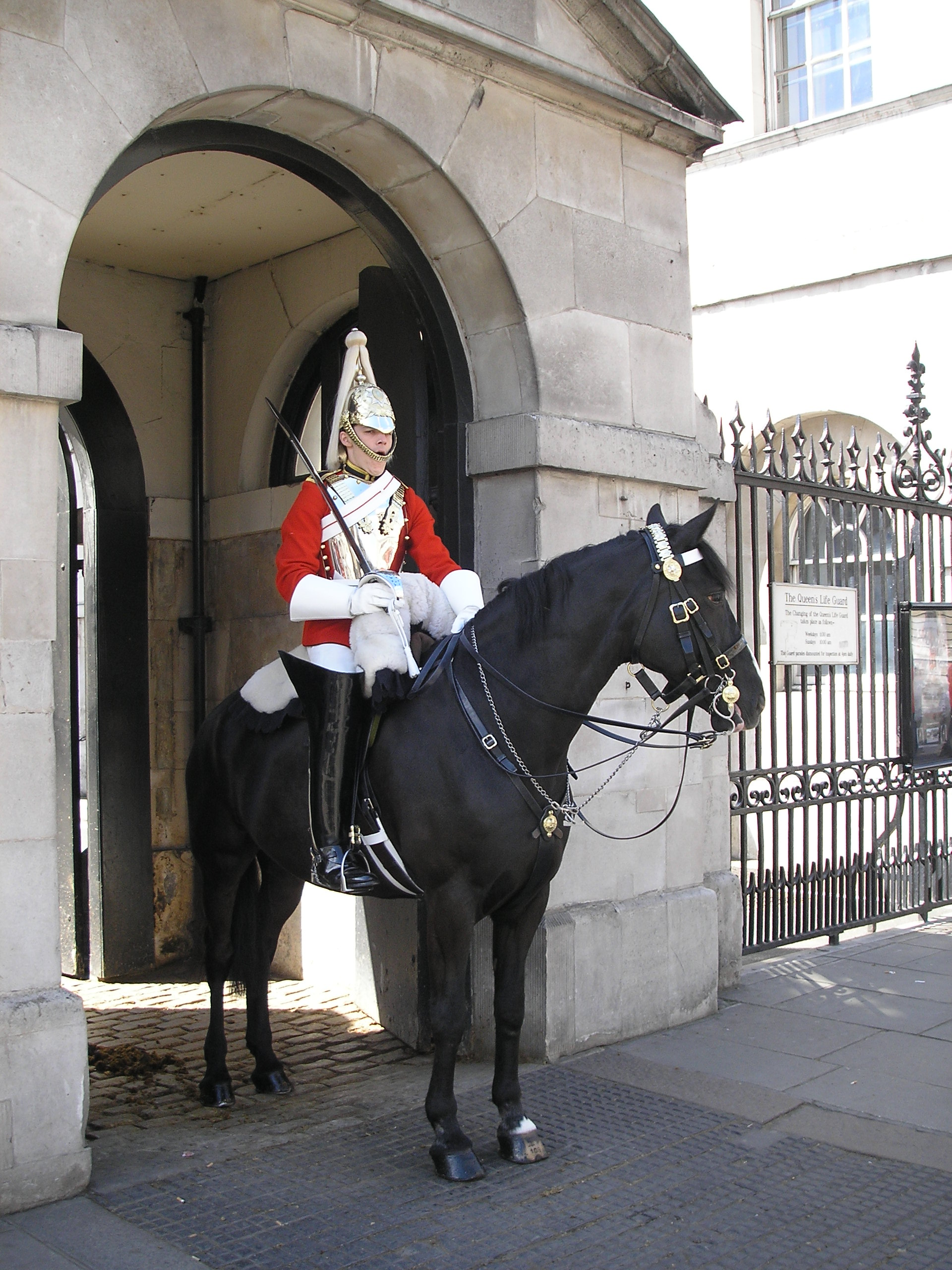 Guard at Horse Guards Parade building in London